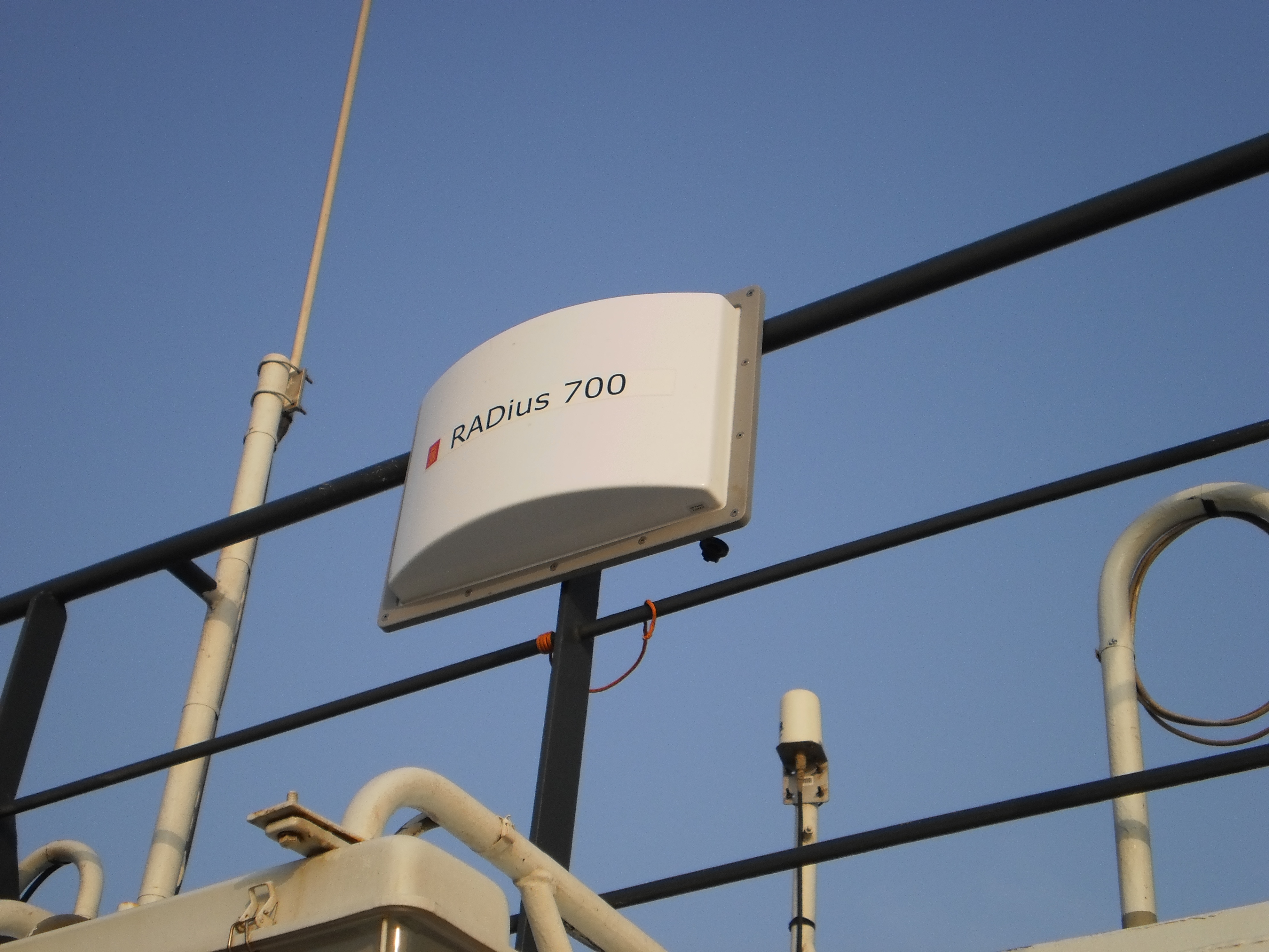 Transponder of reference system RADius for DP vessels.